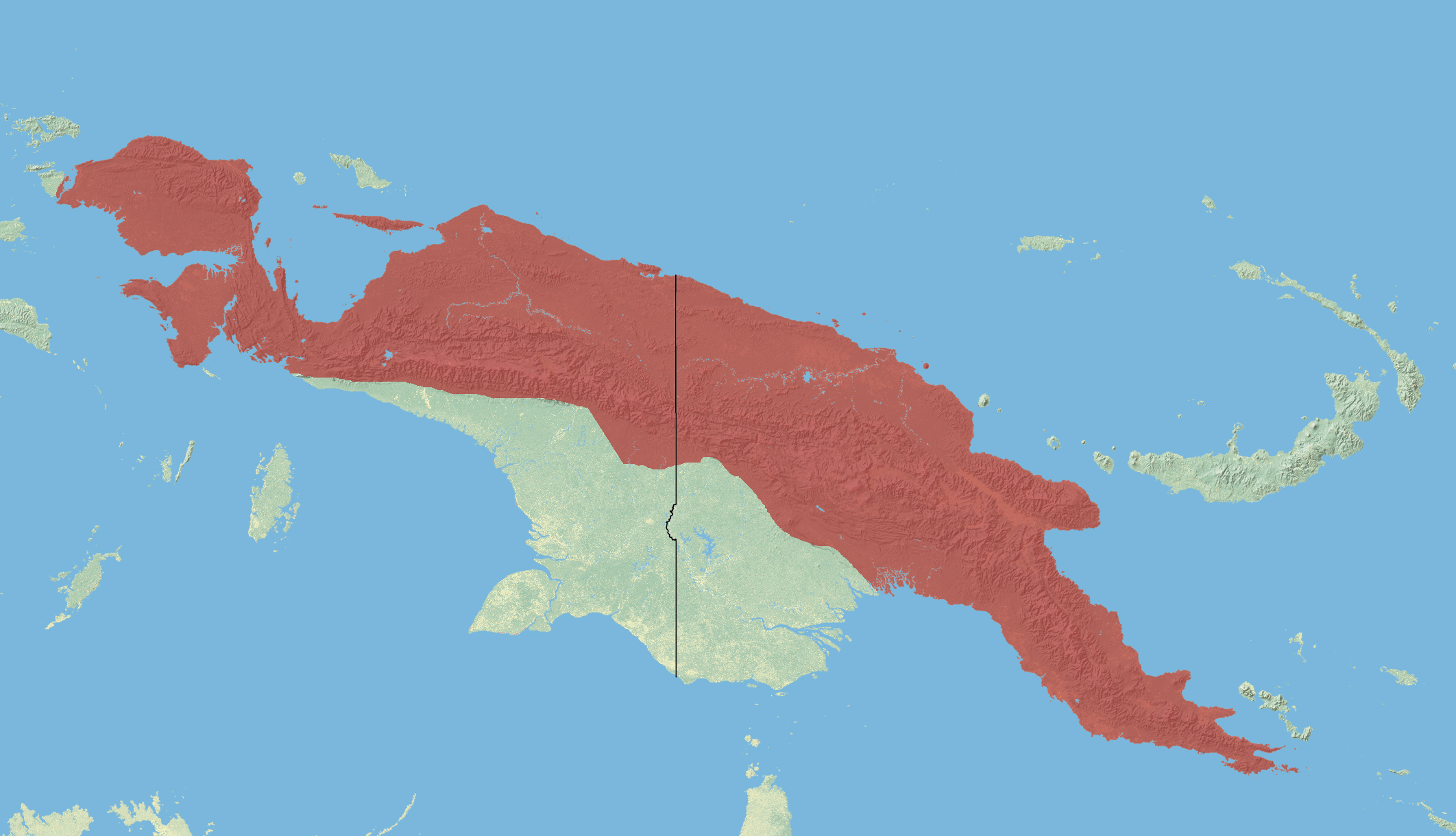 The Distribution of the New Guniea Quoll According to the IUCN